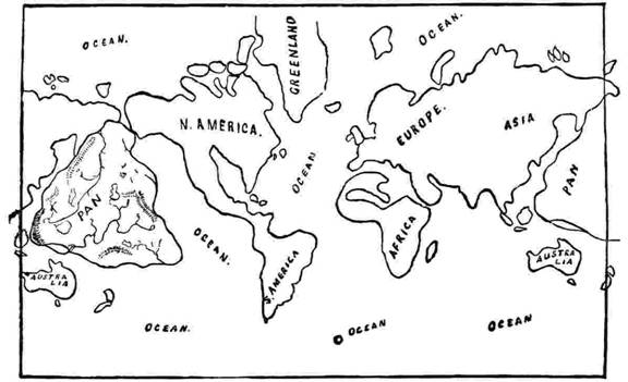 Showing the Locality of Pan, the Submerged Continent.